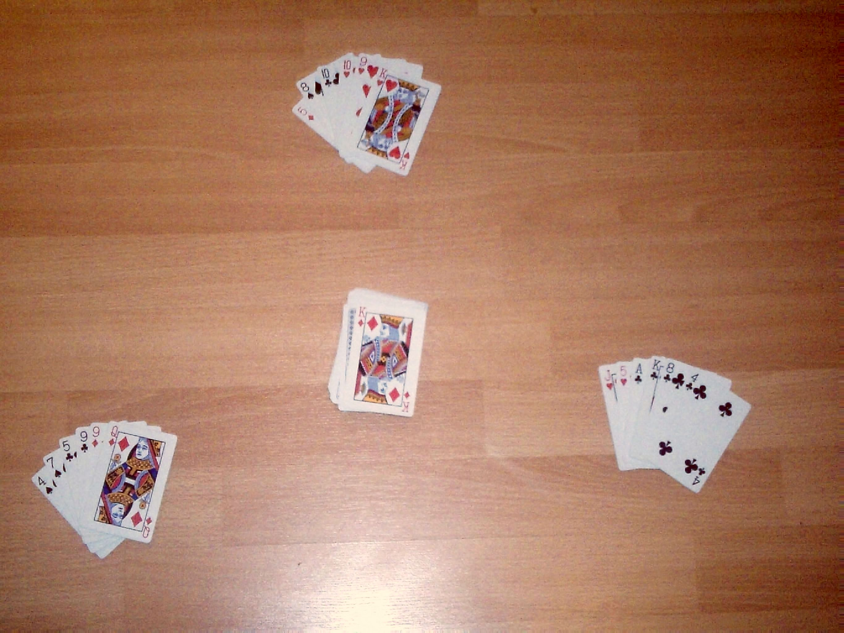 Picture showing the three player setup of All-Fours, before starting play.